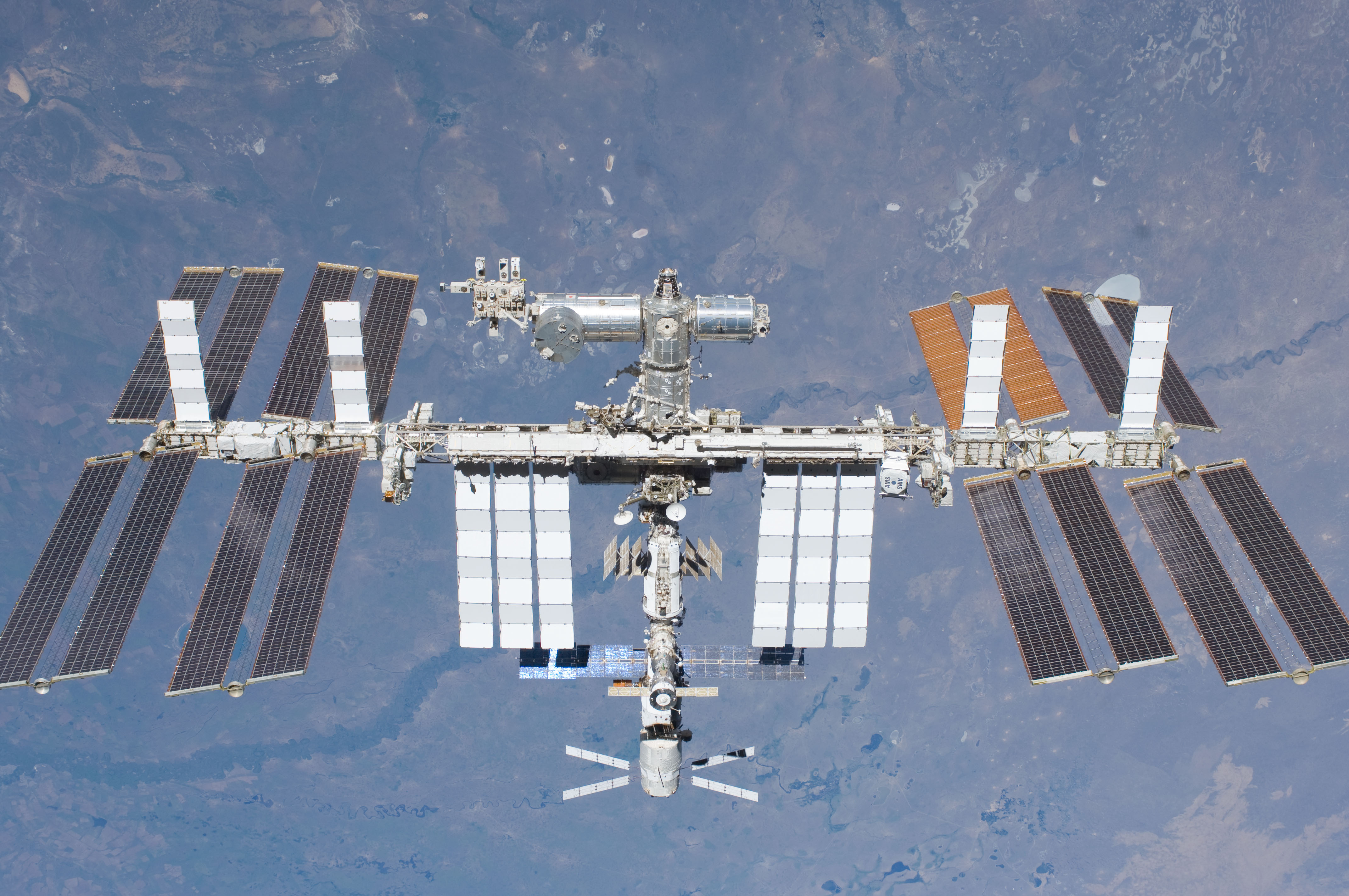 The International Space Station is featured in this image photographed by an STS-134 crew member on the space shuttle Endeavour after the station and shuttle began their post-undocking relative separation. Undocking of the two spacecraft occurred at 11:55 p.m. (EDT) on May 29, 2011. Endeavour spent 11 days, 17 hours and 41 minutes attached to the orbiting laboratory.